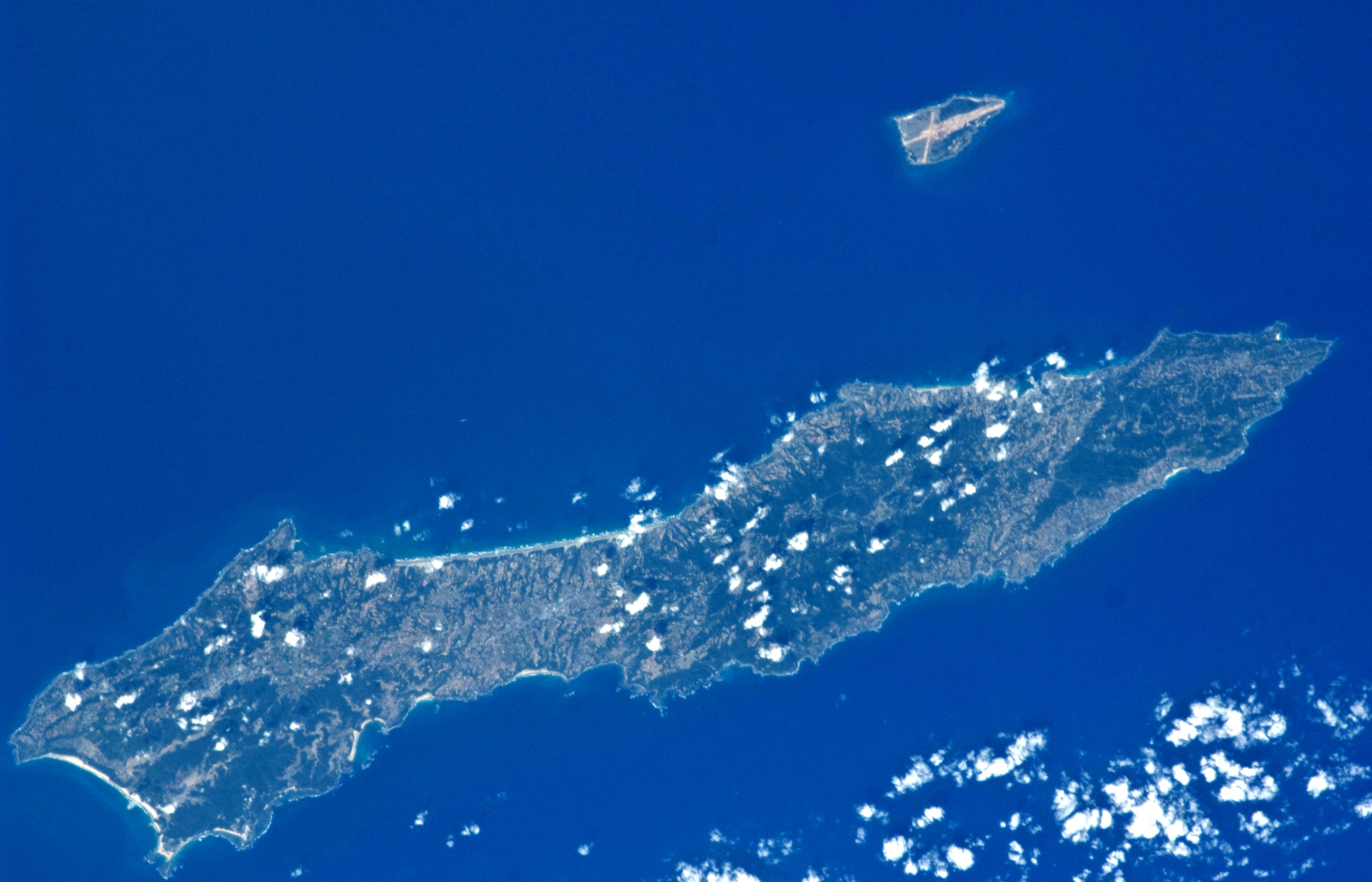 Tanega Island, Kagoshima prefecture, Japan.